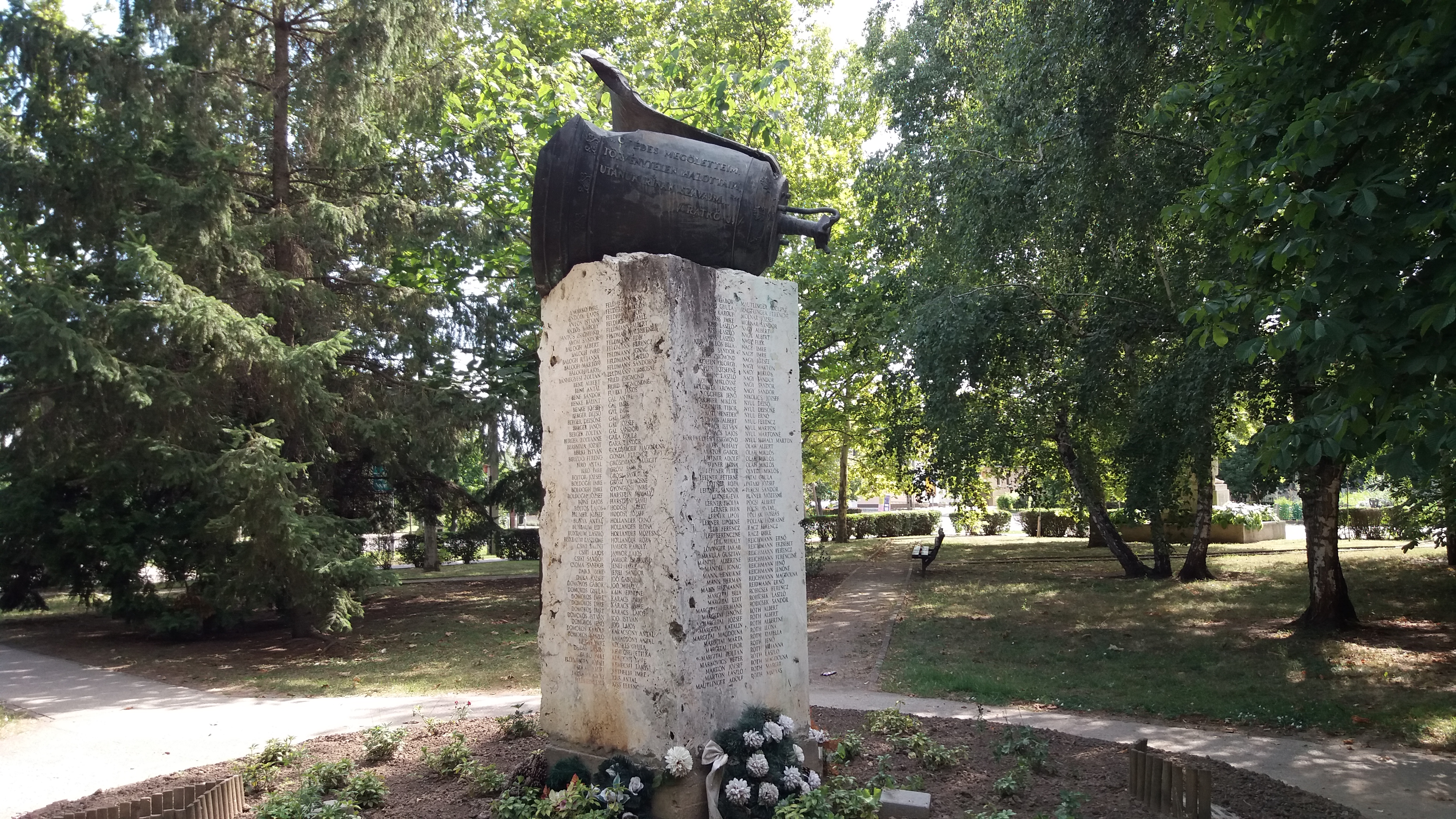 memorial